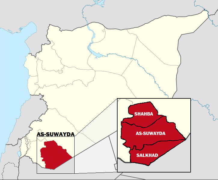 As-Suwayda Governorate on Syria Map with Governorates.